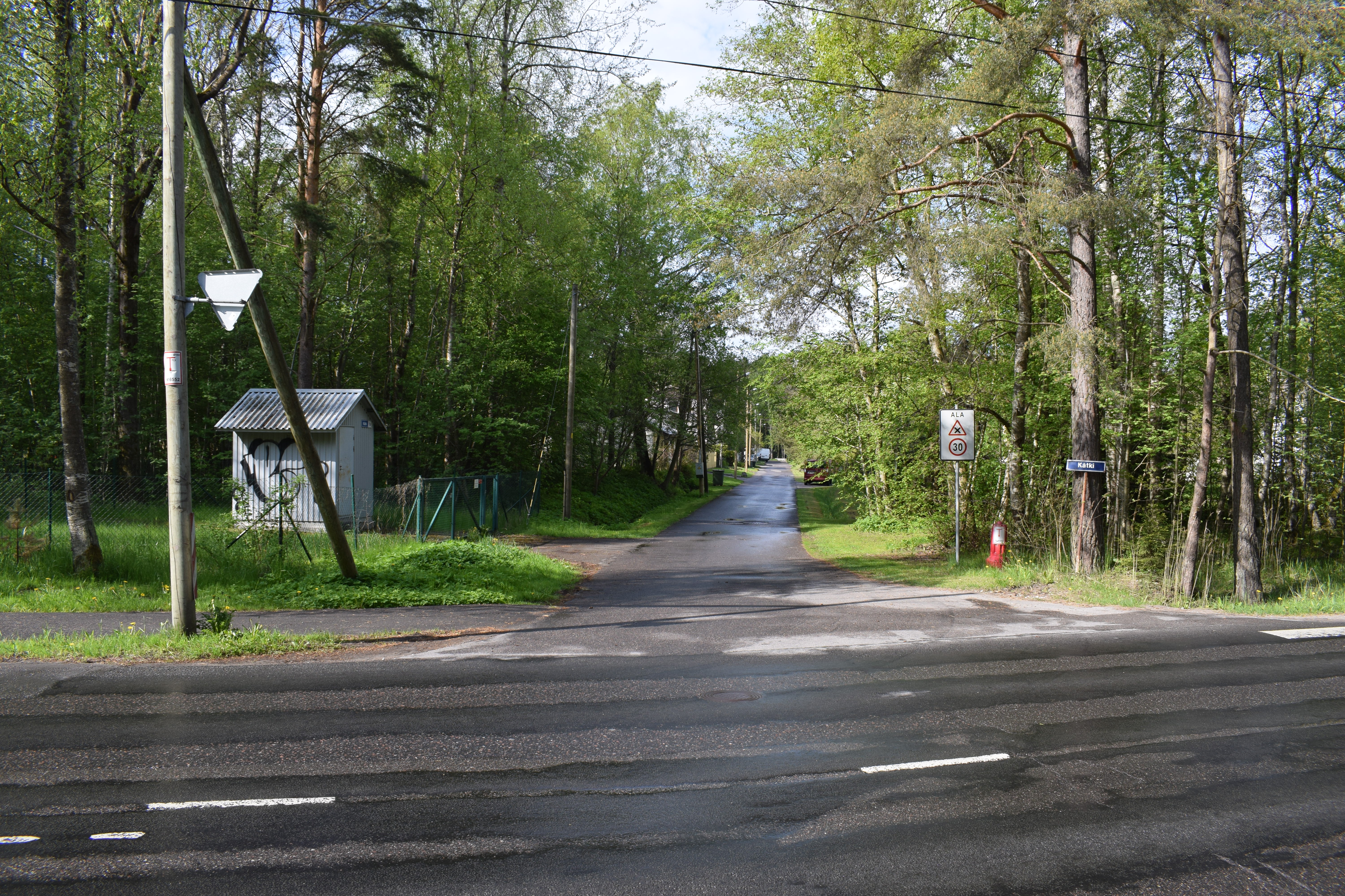 Kätki tänav